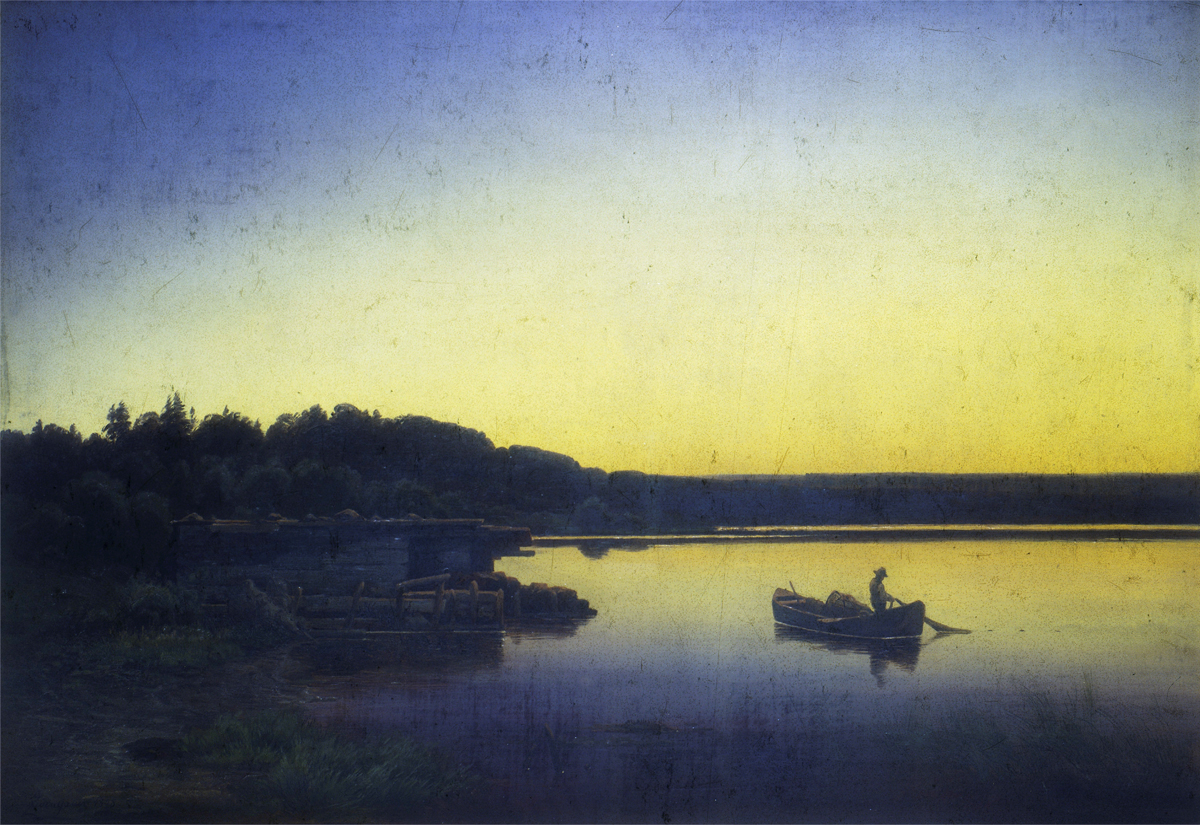 Lake Constance at sunset.